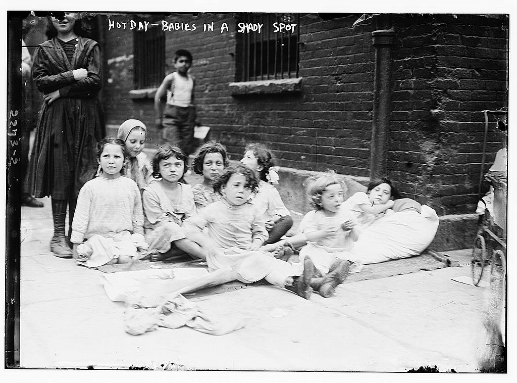 Hot day-babies in a shady spot (LOC) Bain News Service,, publisher. Hot day-babies in a shady spot for the 1911 Eastern North America heat wave [between ca. 1910 and ca. 1915] 1 negative : glass ; 5 x 7 in. or smaller. Notes: Title from unverified data provided by the Bain News Service on the negatives or caption cards. Forms part of: George Grantham Bain Collection (Library of Congress). Subjects: Children Format: Glass negatives. Repository: Library of Congress, Prints and Photographs Division, Washington, D.C. 20540 USA, General information about the Bain Collection is available at Persistent URL: Call Number: LC-B2- 2273-2